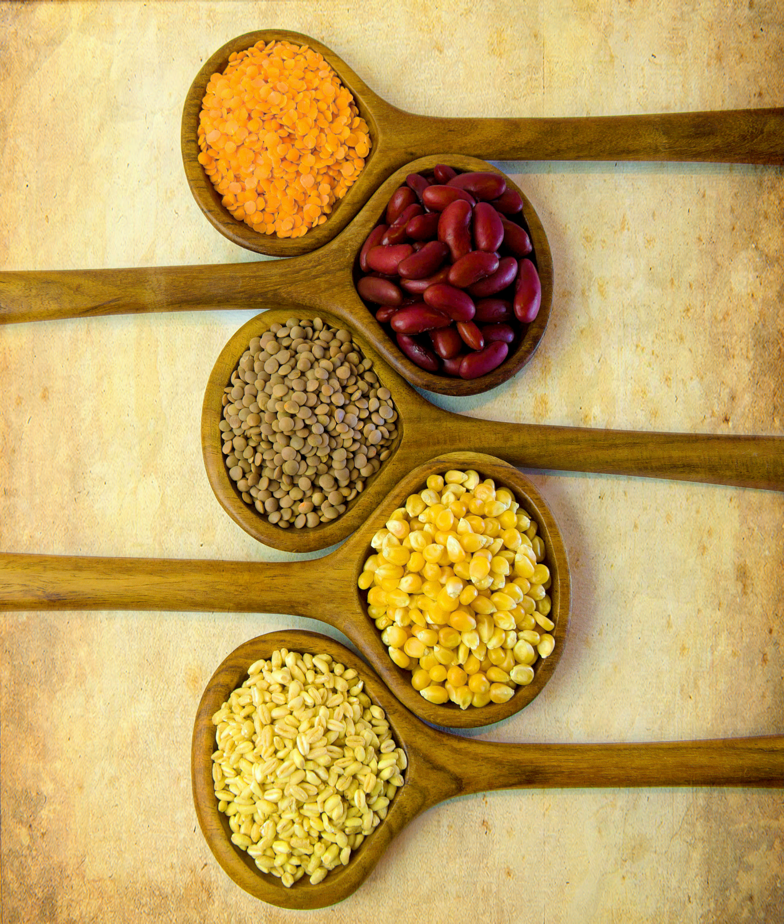 Some Egyptian Grains, in sequence: 1.lentil, 2.bean, 3.lentil, 4.maize, 5.wheat هذه الصورة تمثل اكلة من مصر